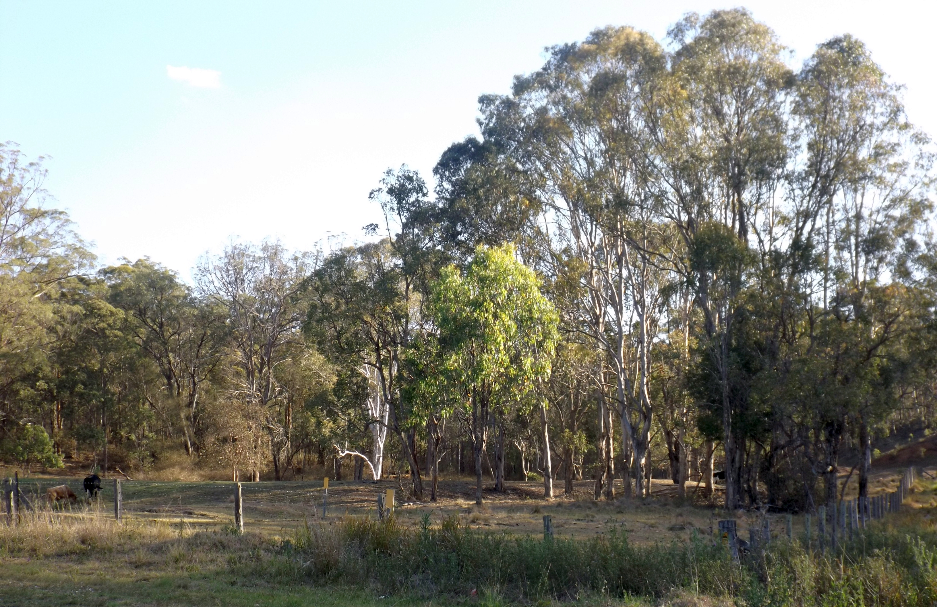 Photo of paddocks at Perseverance, Queensland, Australia.